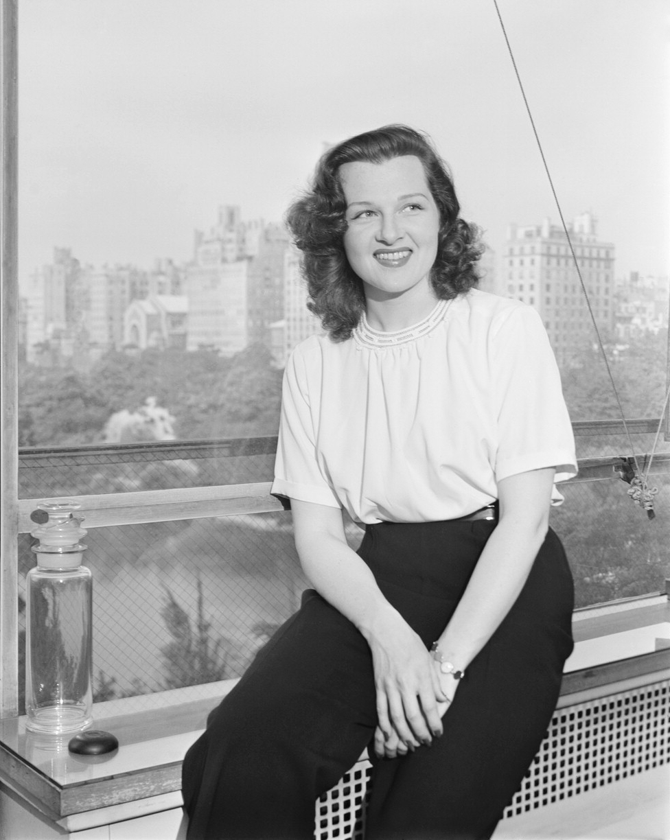 Jo Stafford